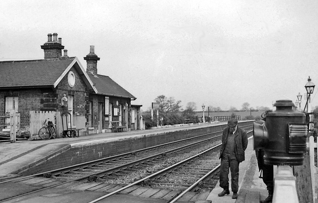 Brompton (North Yorks.) Station. View NE, towards Eaglescliffe; ex-North Eastern, Northallerton - Eaglescliffe - Stockton/Middlesbrough etc. main line. The station was closed 8/9/65, but the line is of course still a major artery. (That is NOT my Dad!)